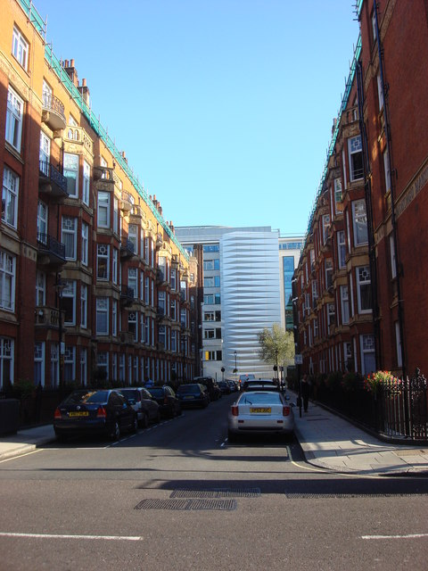 Montagu Mansions towards Dorset Street, Marylebone, London